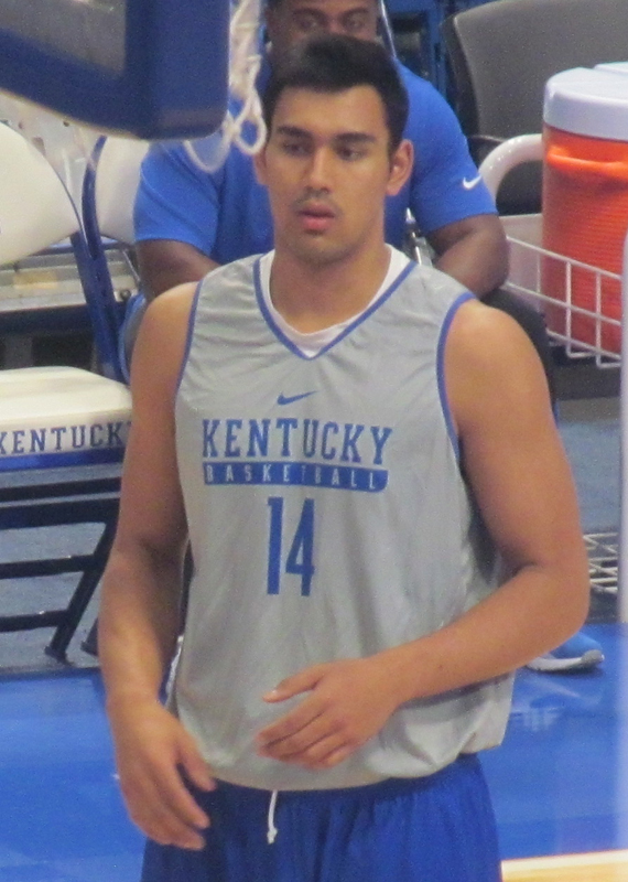 Tai Wynyard in Kentucky's 2016 Blue-White scrimmage